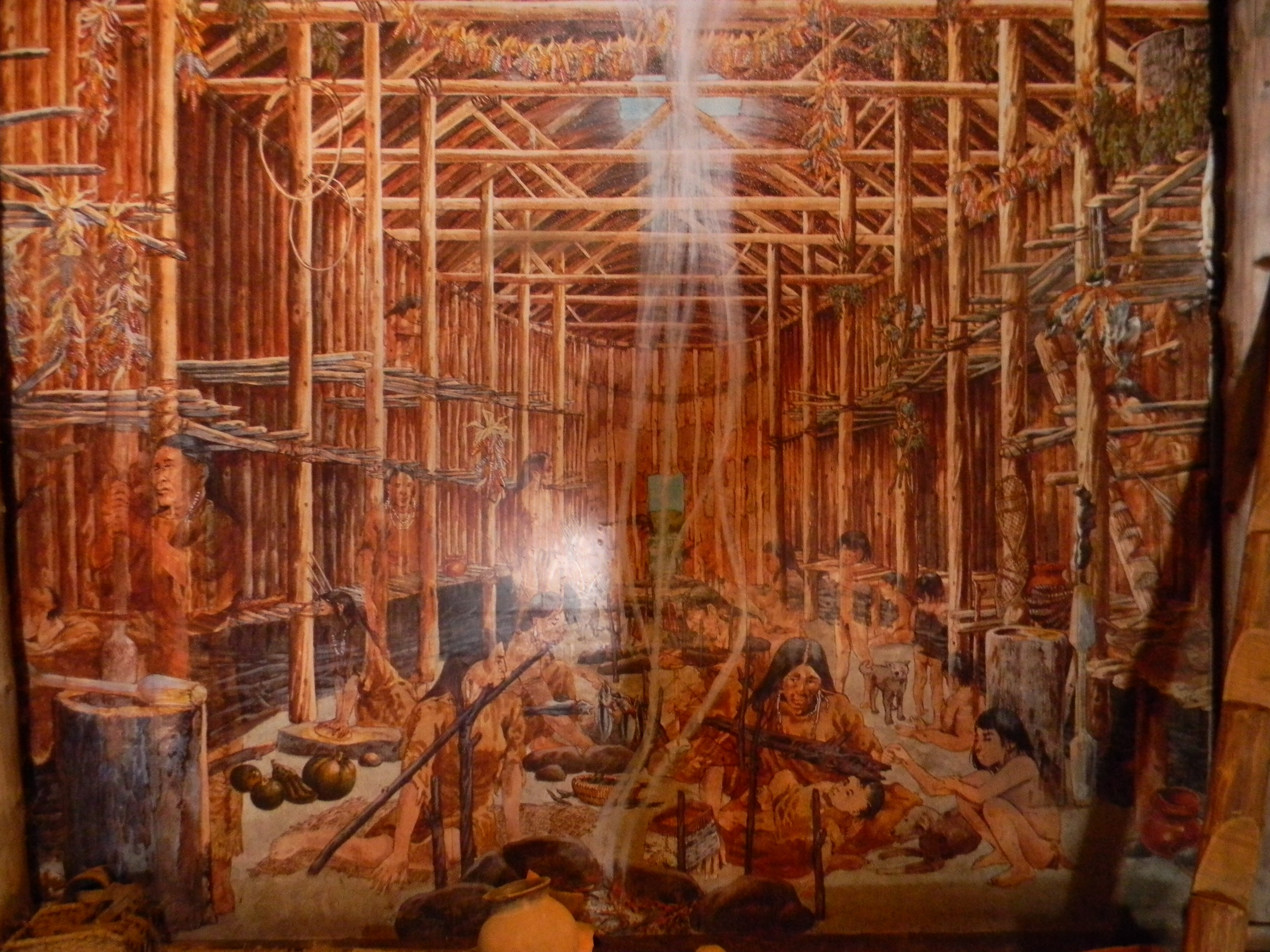 Inside the Longhouse - Iroquoian Village, Ontario, Canada. The 15th century Iroquoian Village was reconstructed on its original site. This village is located along the traditional boundry between the Wendat (Huron) 13th, 14th and 15th centuries and Attiwandaron (Neutral) people 15th, 16th and 17th centuries. As per arheological facts this area was ocupied by ancestors of both of these Nations at various time period.